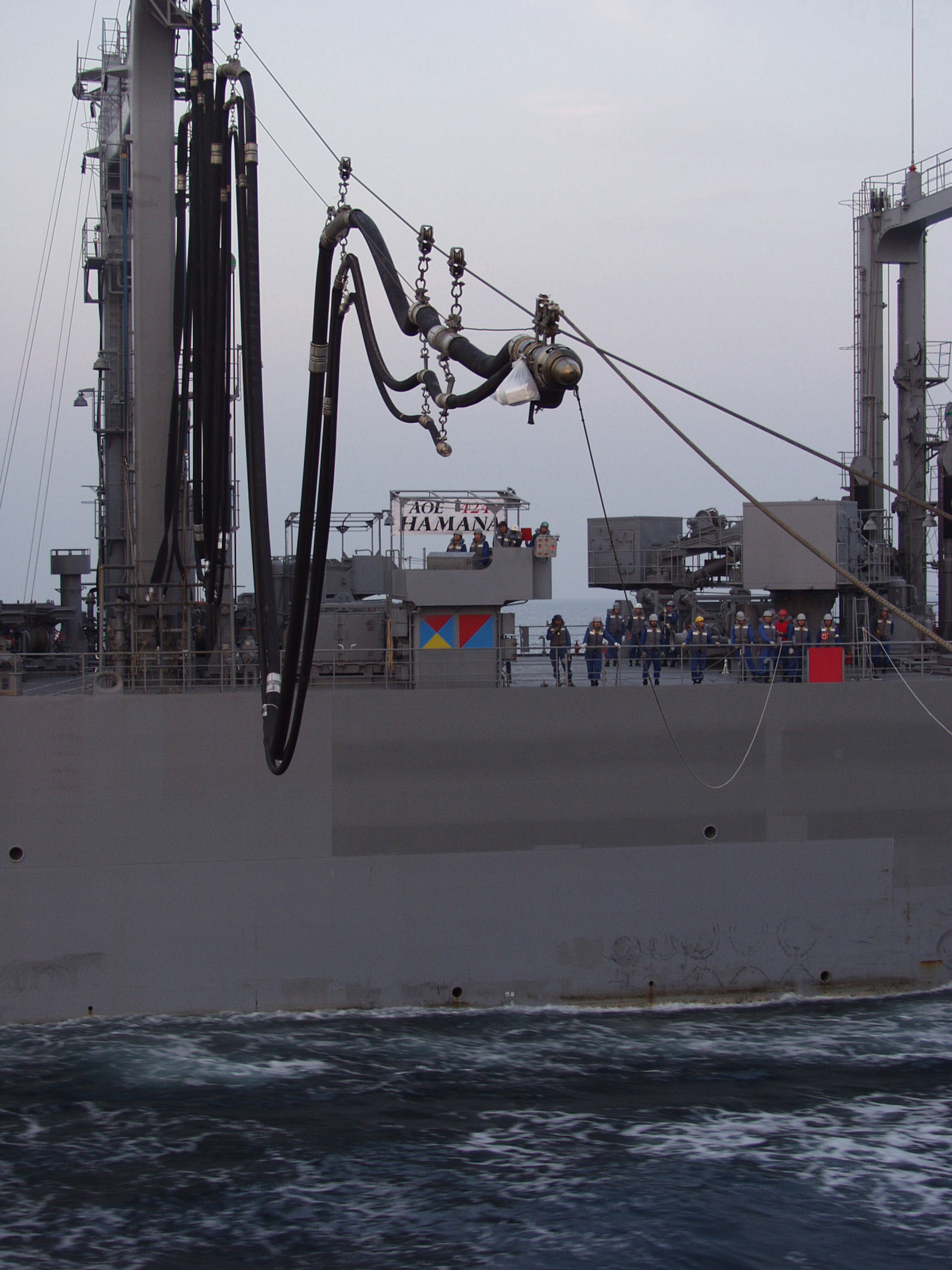 USS Antietam (CG 54) prepares to receive a refueling probe from the Japanese supply ship JDS Hamana (AOE 424) for a refueling at sea (RAS) evolution in the early evening, Dec. 18, 2001. This is the 1st time the two ships will conduct a RAS together. Both ships are part of the coalition force supporting Operation Enduring Freedom. (U.S. Navy photo by Lt. Cmdr. Bob Meeker) (Released)